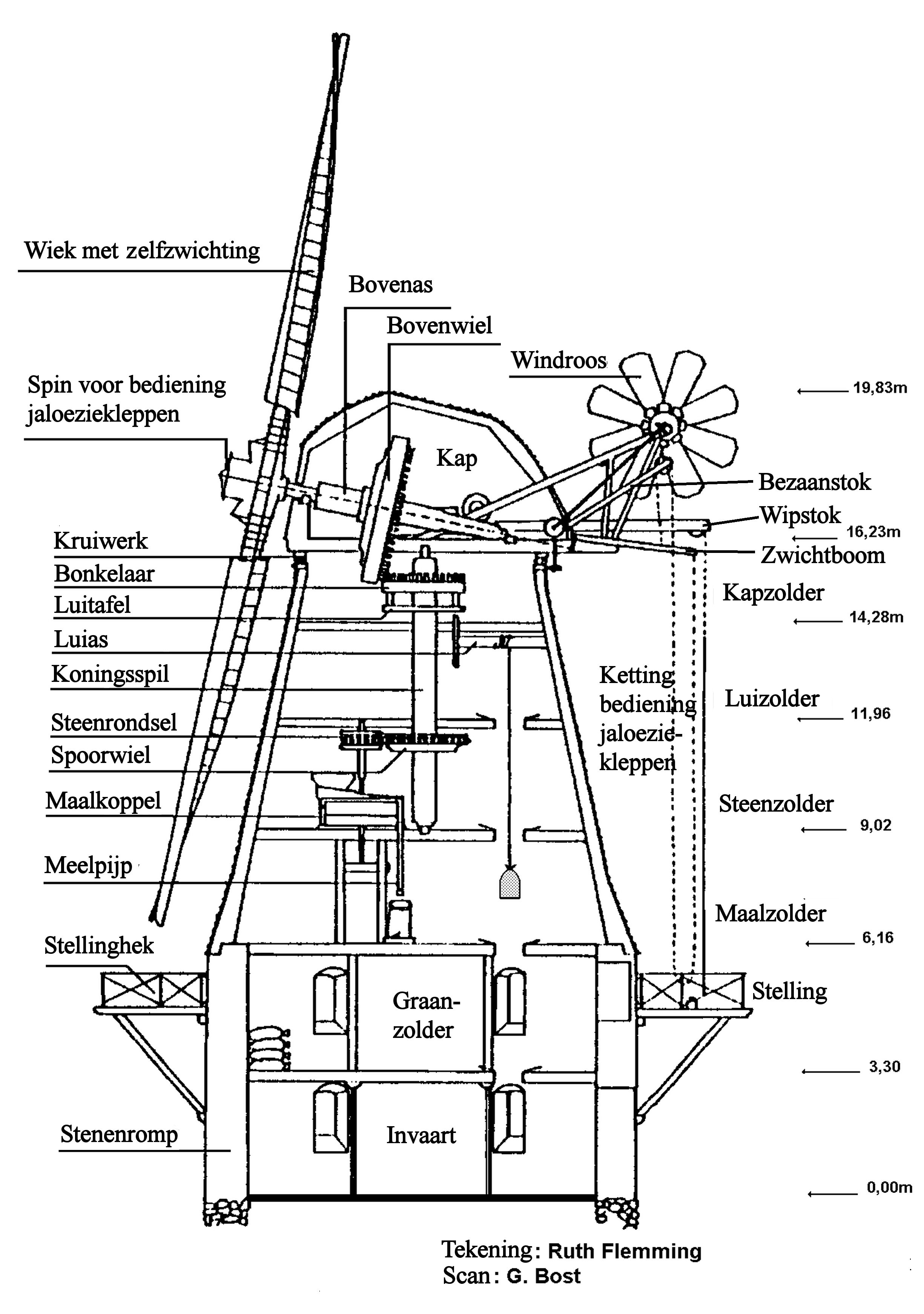 with Dutch text